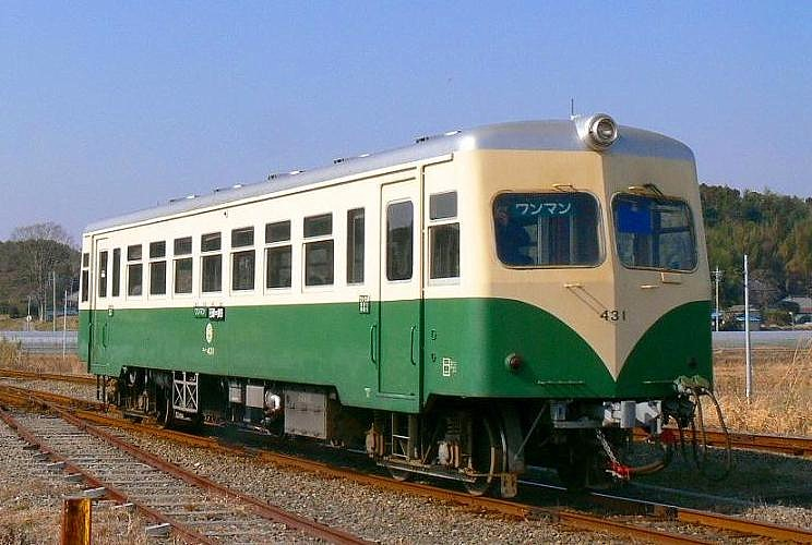 Kasima-Railway Type 431(Japan). It takes a picture outside the site in the Tamatsukuri-Mati station premises in the Kashima railway line. 鹿島鉄道キハ431形気動車 玉造町駅構内にて、敷地外より撮影。